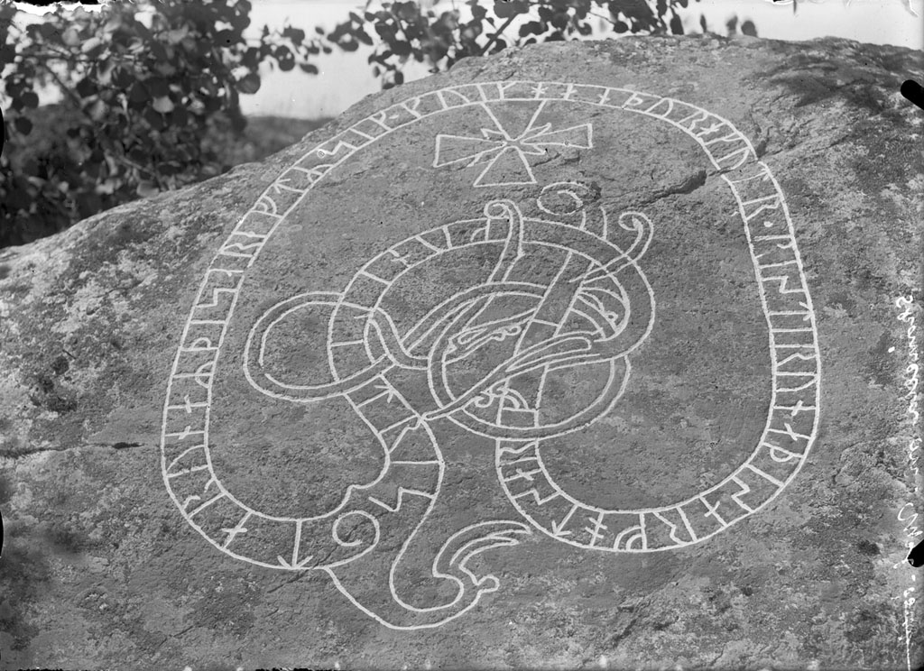 Runic inscription (U 308) on a rock at Ekeby, north-west of Skånela Church. The inscription says: "Gunne had these runes carved to his memory, while he was alive. Torgöt carved these runes".